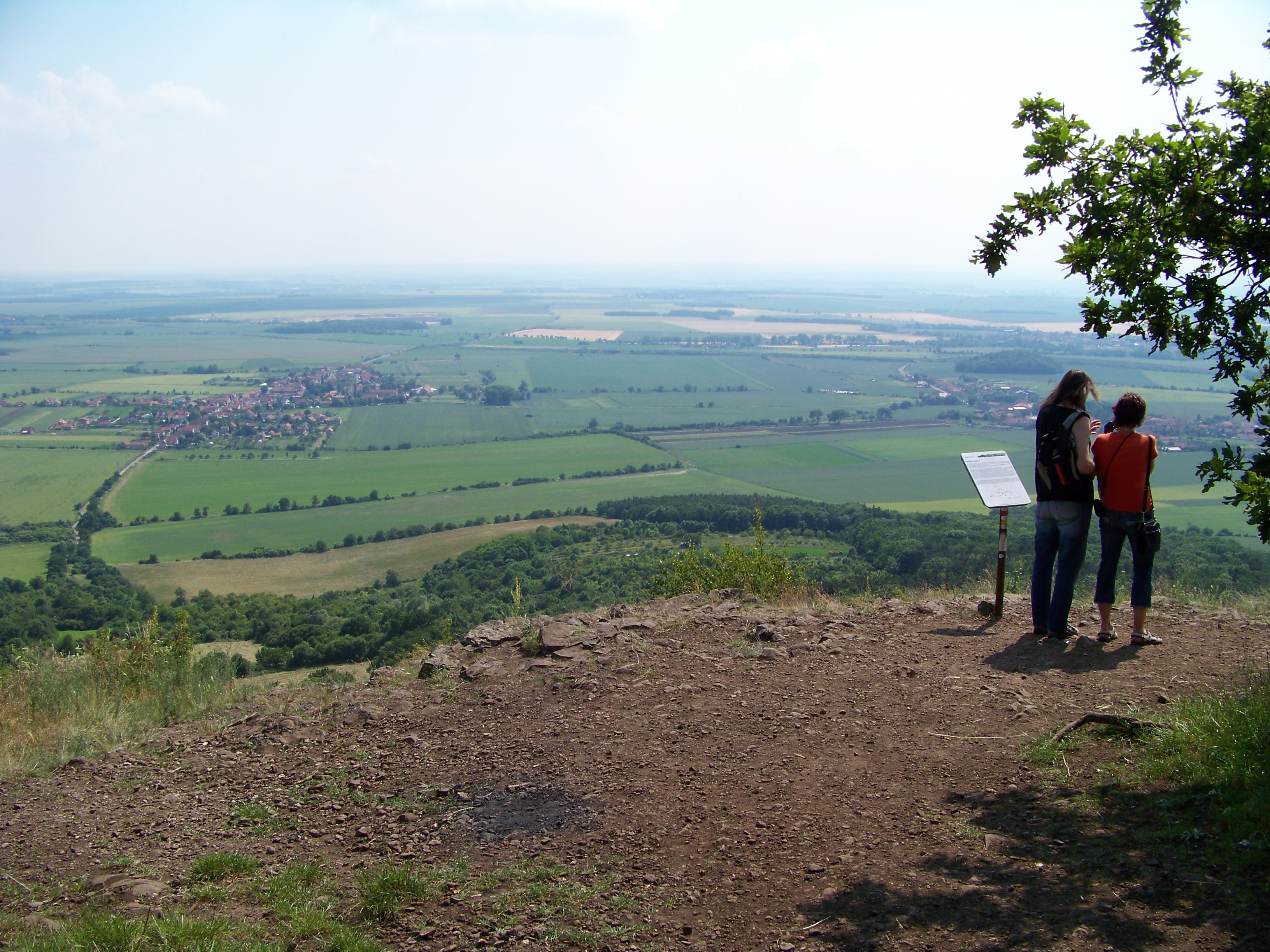 Mnetěš, Litoměřice District,Ústí nad Labem Region, the Czech Republic. A view from Prague View Point on the Říp Mountain.